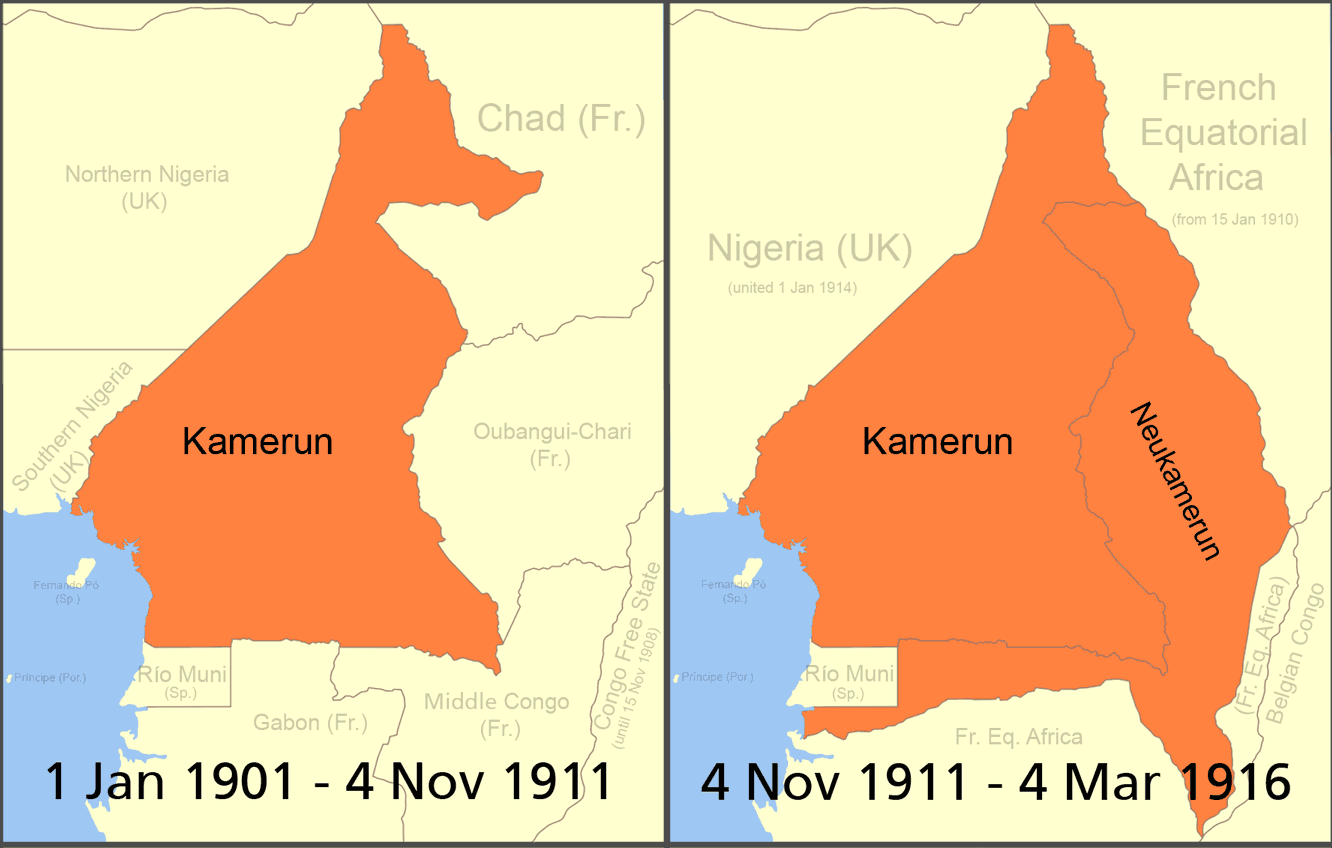 Boundary changes in Cameroon